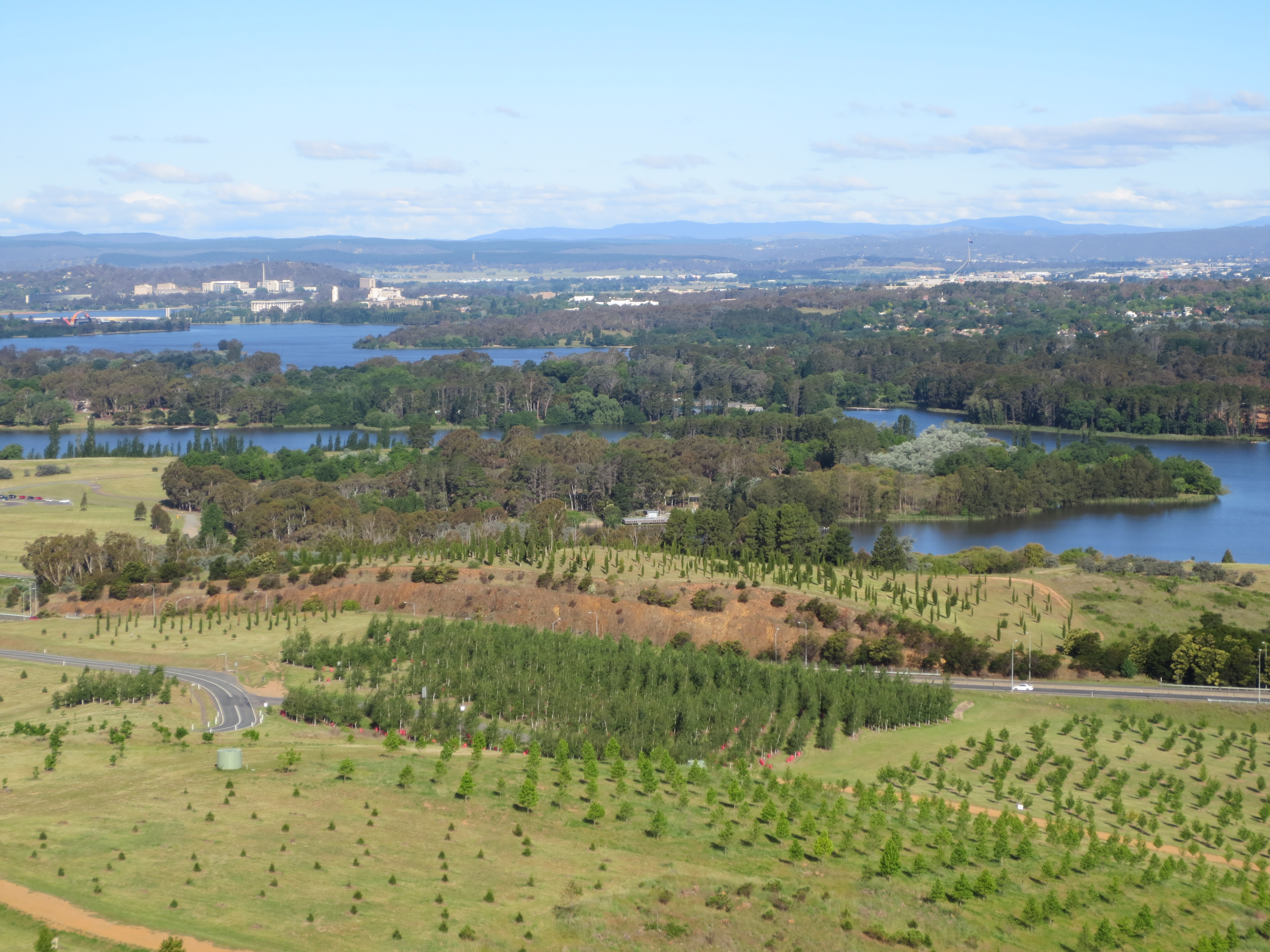 view of Yarramundi Reach from Dairy Hill with part of National Arboretum Canberra